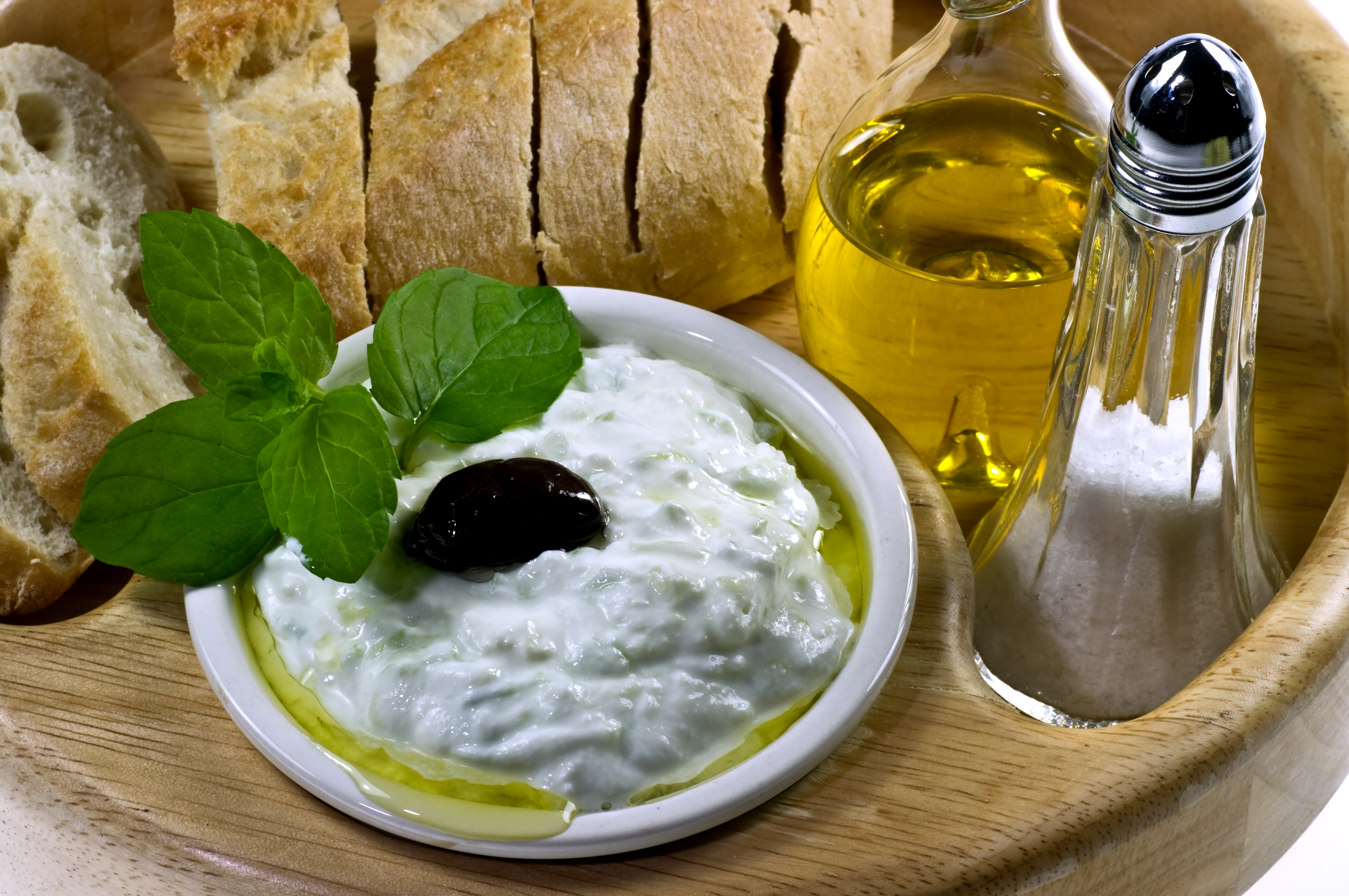 Tzatziki, tzadziki, or tsatsiki - Greek meze or appetizer, also used as a sauce